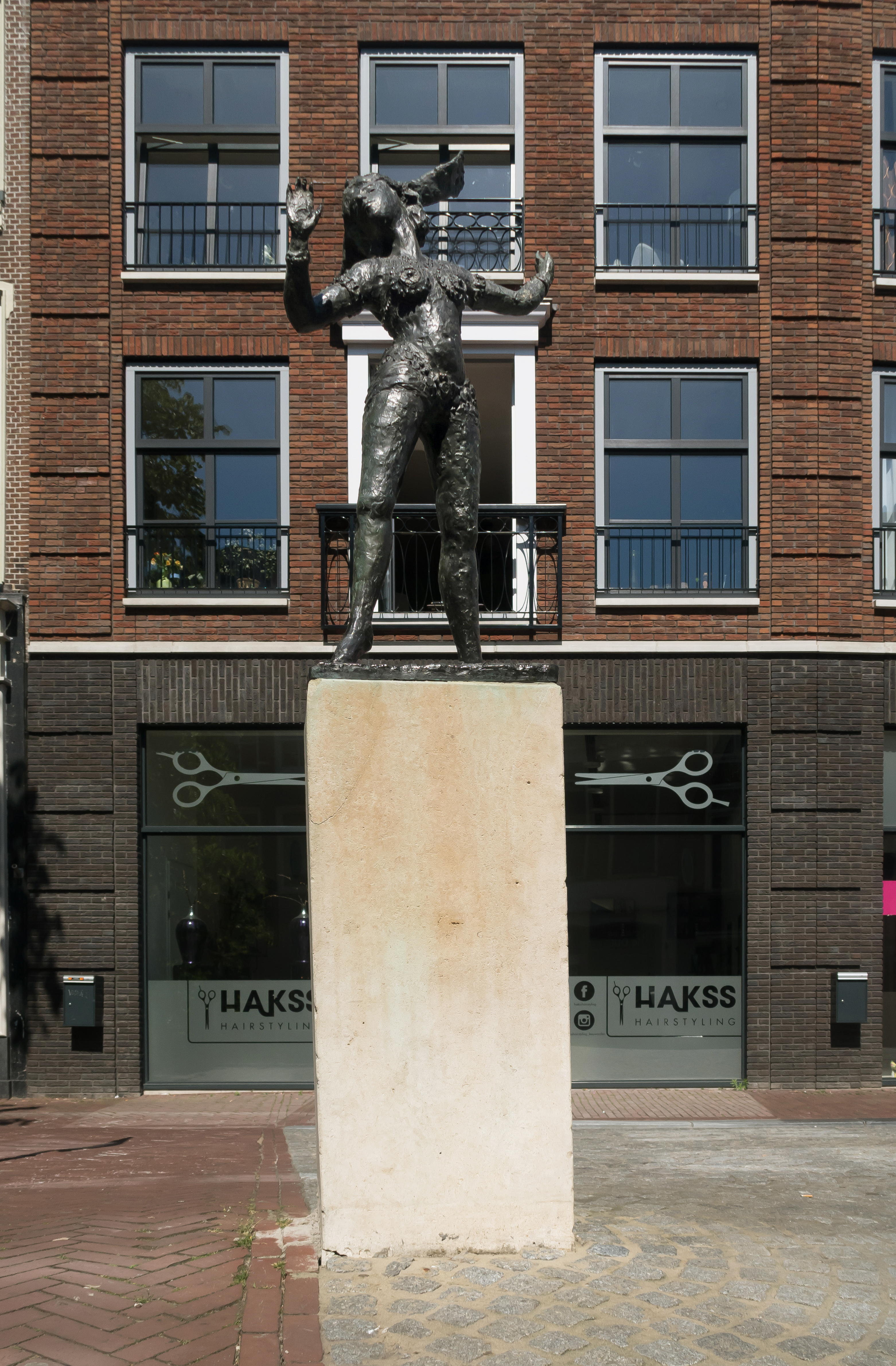 Leeuwarden, statue Mata Hari